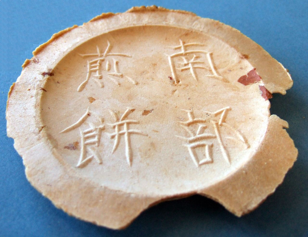 Nanbu Senbei, crackers made from wheat flour. Produced in Iwate, Japan, its origin dates back to the 11-15th century. Fujifilm FinePix F11